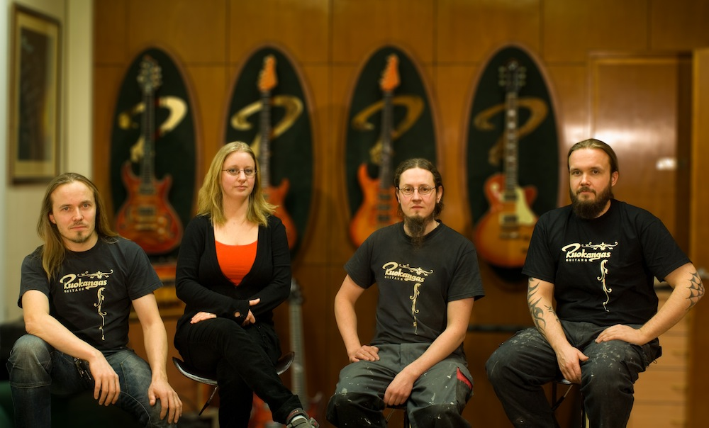 The Ruokangas Team From left: Juha Ruokangas, Emma Elftorp, Jyrki Kostamo, Tomi Nivala